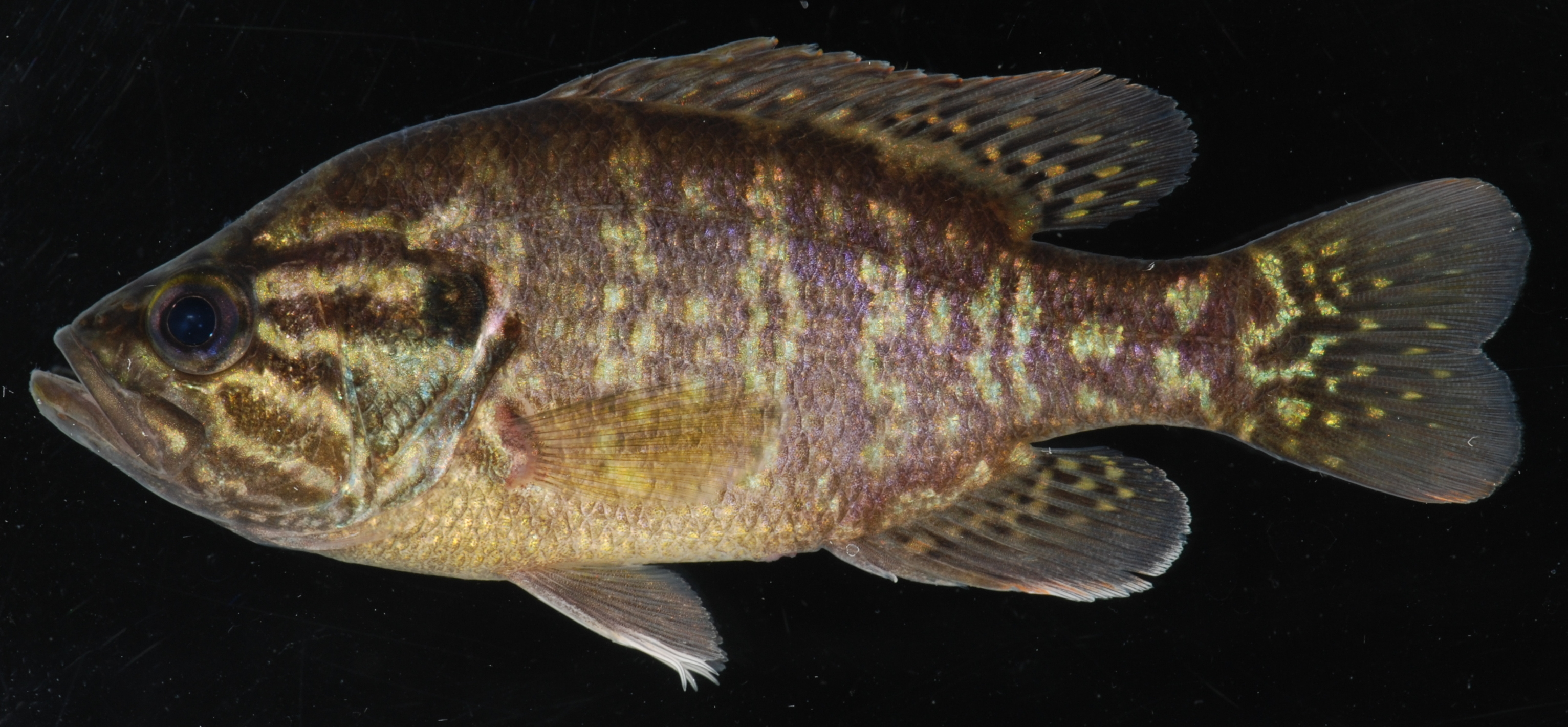 Warmouth, Lepomis gulosis, 112 mm TL. Mouth of Stoney Run, Patapsco River, Anne Arundel County, Relay Quad, MD - 05/17/17. Photo by Robert Aguilar, Smithsonian Environmental Research Center.